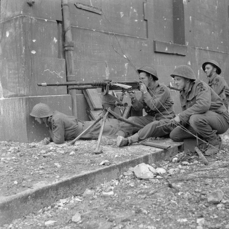 The British Army in Normandy 1944 Troops of 1 Kings Own Scottish Borderers (KOSB), 9th Brigade, 3rd Infantry Division, firing a captured Hotchkiss machine gun during street fighting in Caen, 10 July 1944.